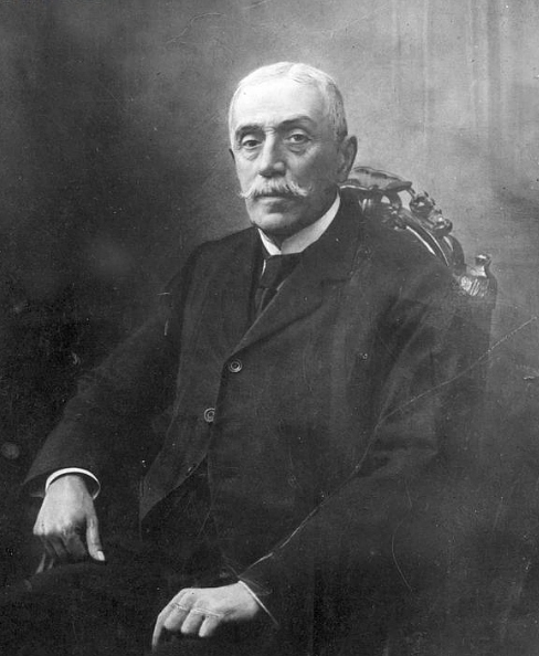 Józef Ostrowski (1850-1923), Polish politician